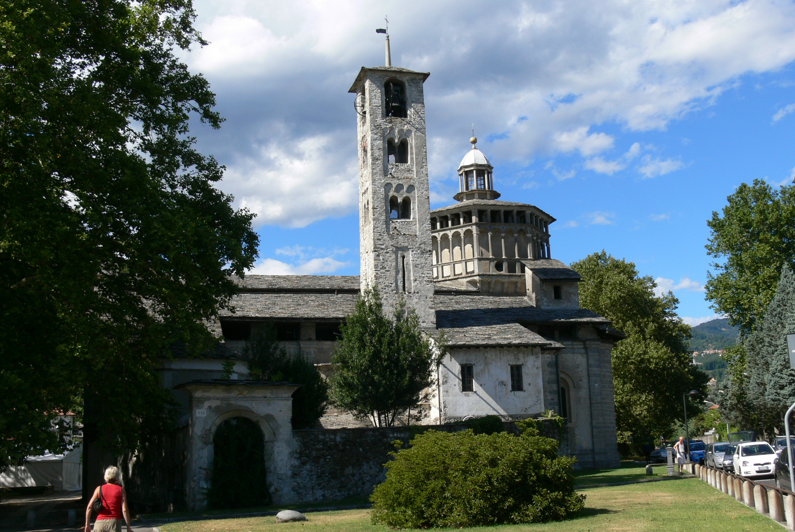 Madonna di Campagna (Verbania-Pallanza).